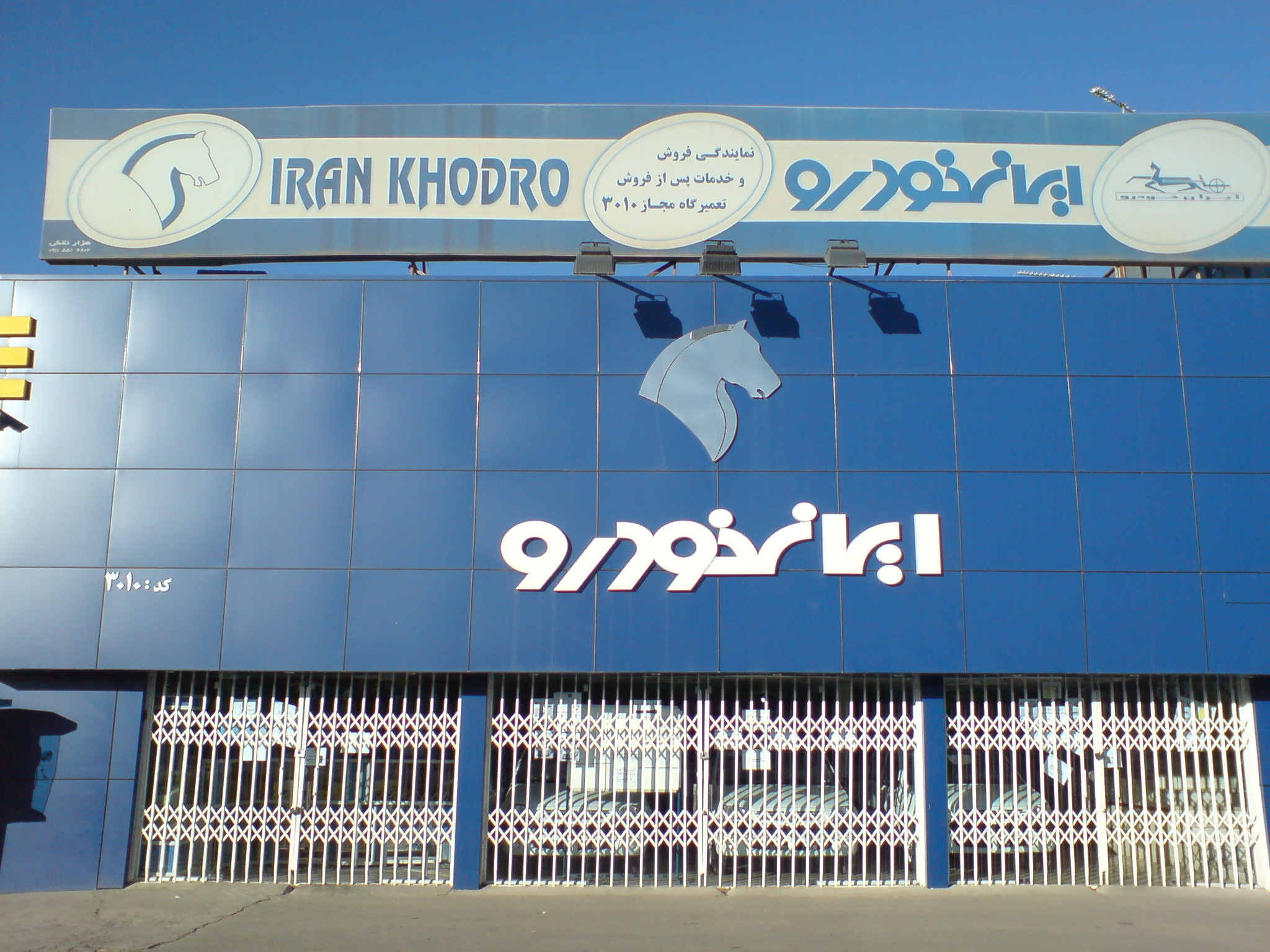 IKCO Nishapur Dealership